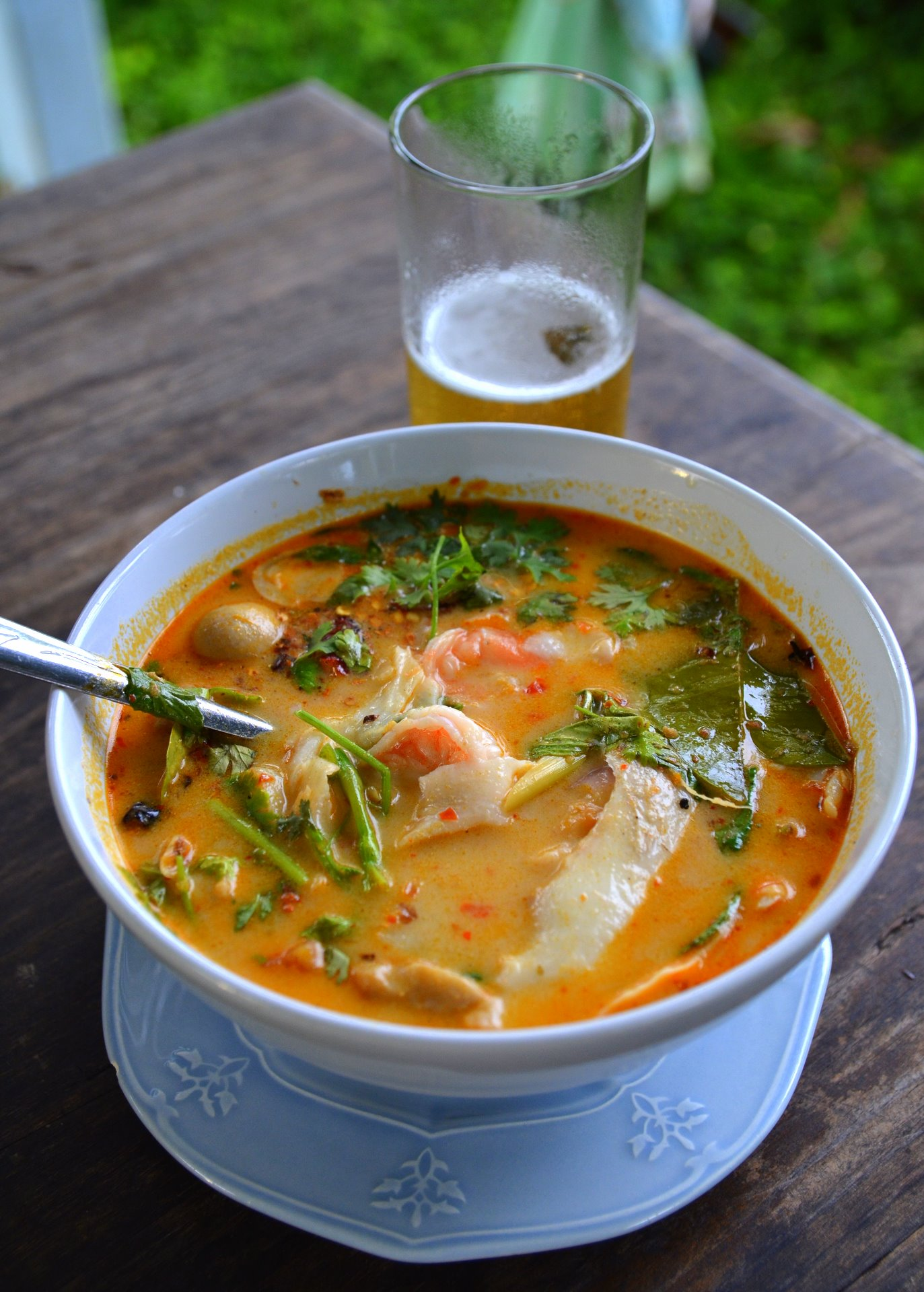 Tom yam kung maphrao on nam khon (Thai script: ต้มยำกุ้งมะพร้าวอ่อนน้ำข้น) is a variation on the standard tom yam kung (prawn tom yam) in that it contains the meat of a young coconut (maphrao on) and also a dash of coconut milk (nam khon which literally means "condensed/thick liquid")